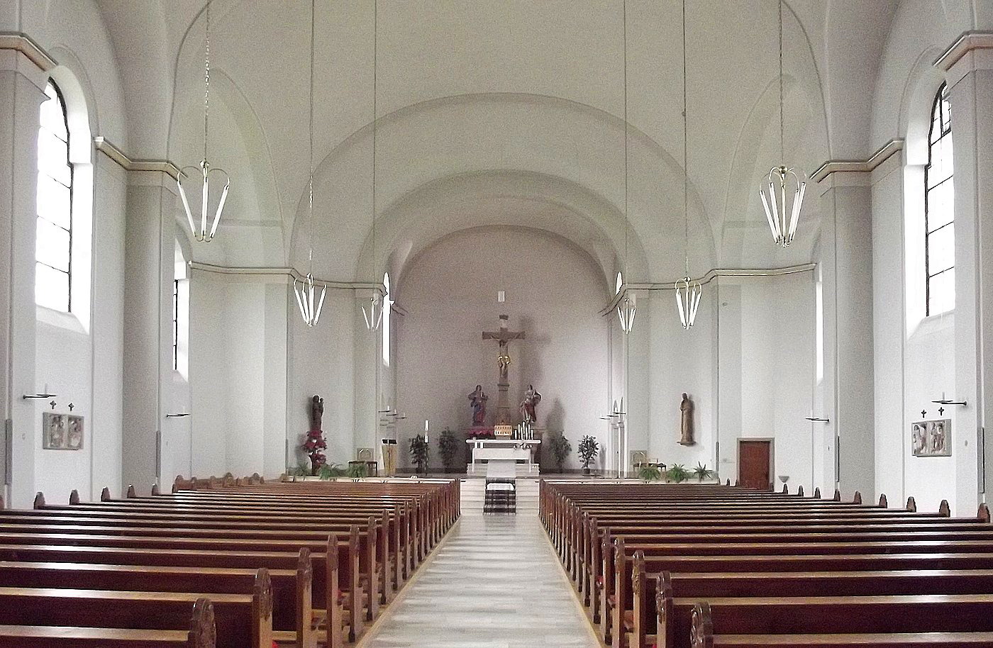 Interior of the roman catholic church in Güdesweiler, Saarland